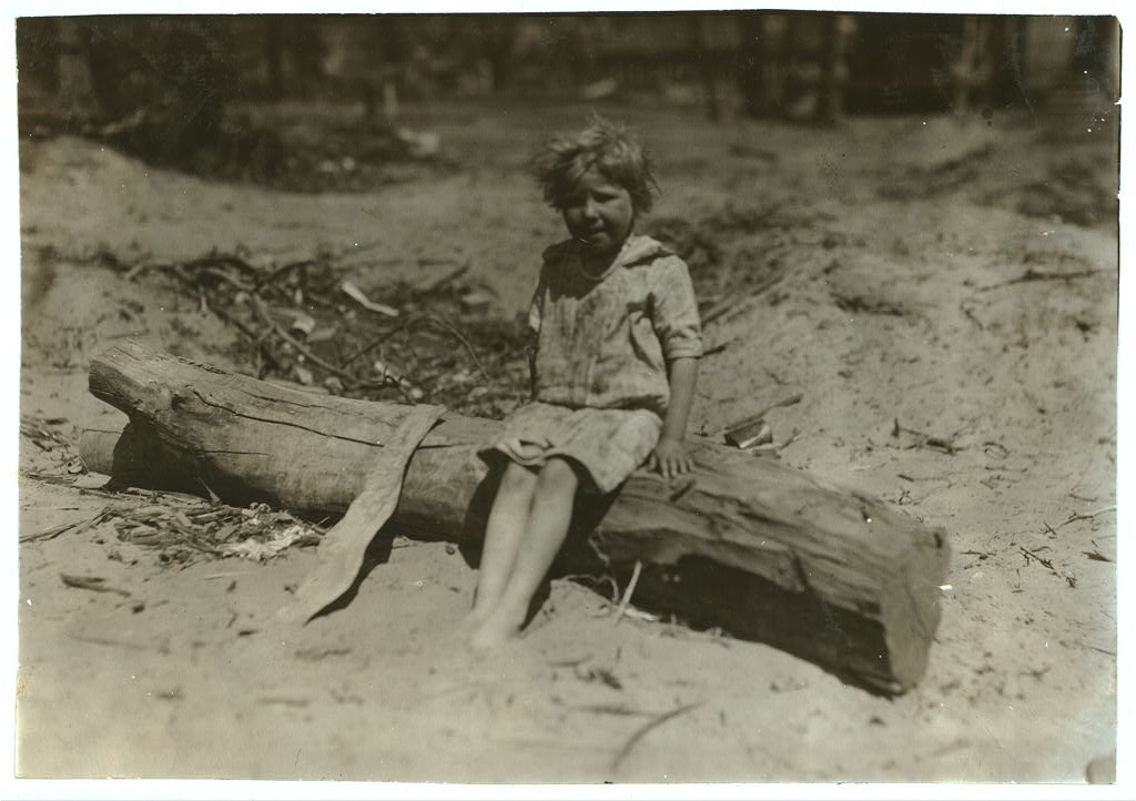 Neglected children. Location: Oklahoma City, Oklahoma. / L.W. Hine.